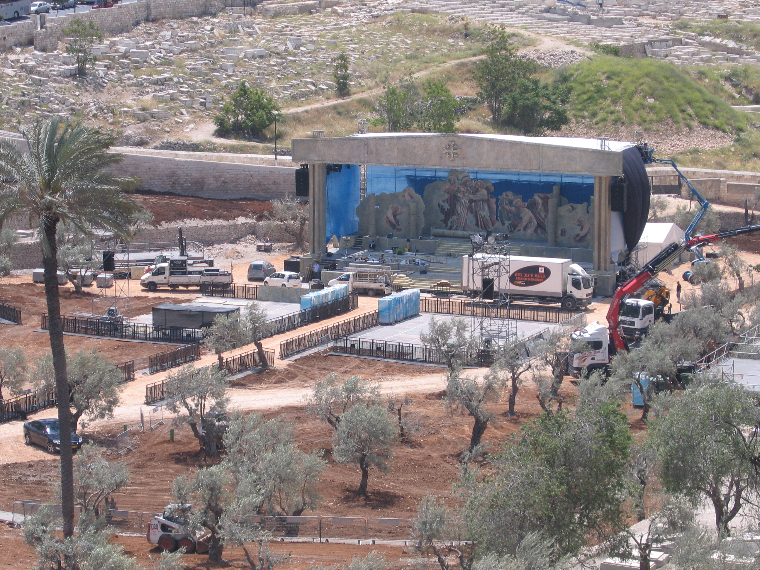 preparation to the visit of Benedictus PP. XVI , Kidron Valley, Jerusalem, 7.5.2009.